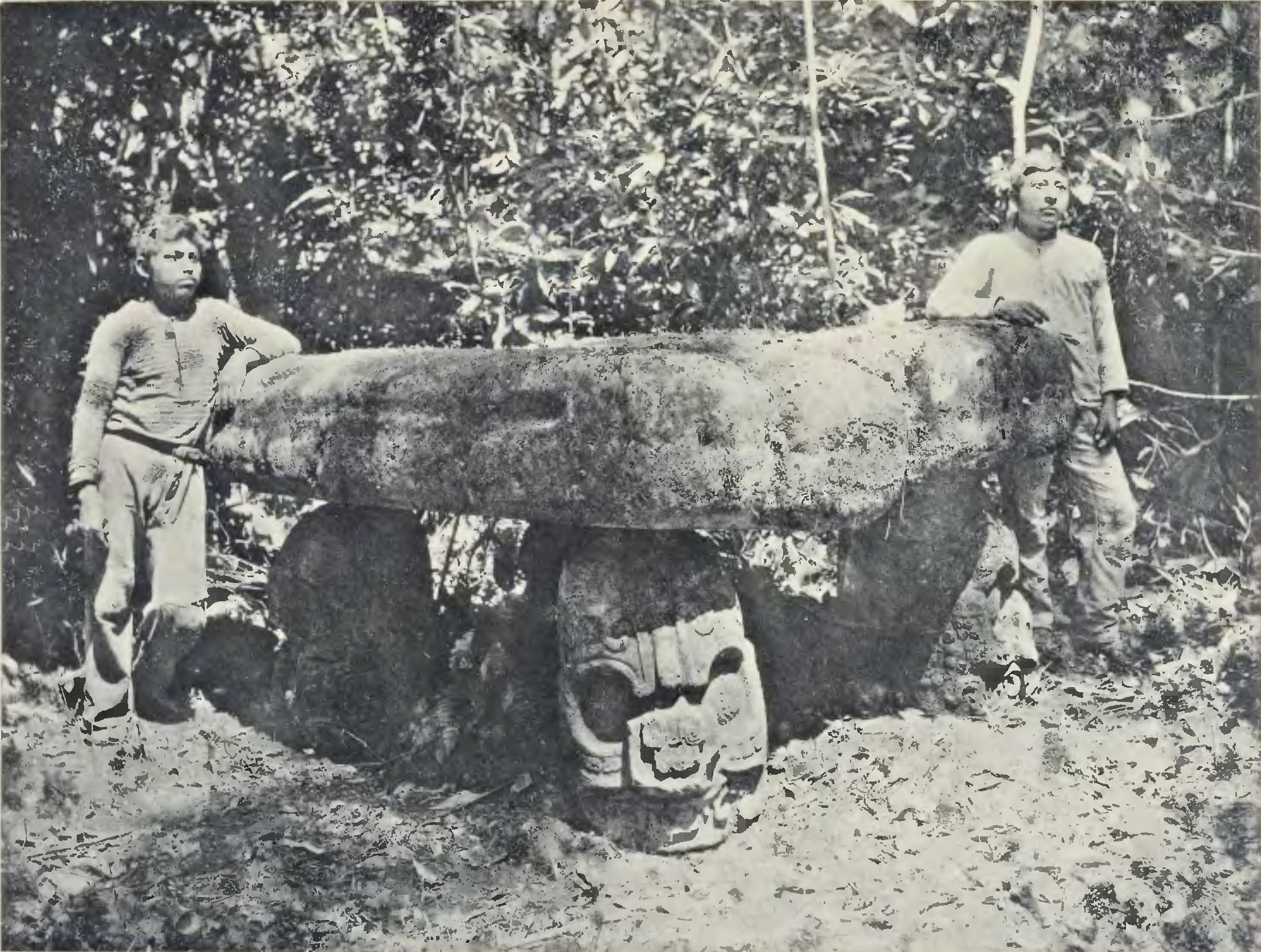 Plate IX from Researches in the Central Portion of the Usumatsintla Valley, published in 1901. Piedras Negras Altar 4